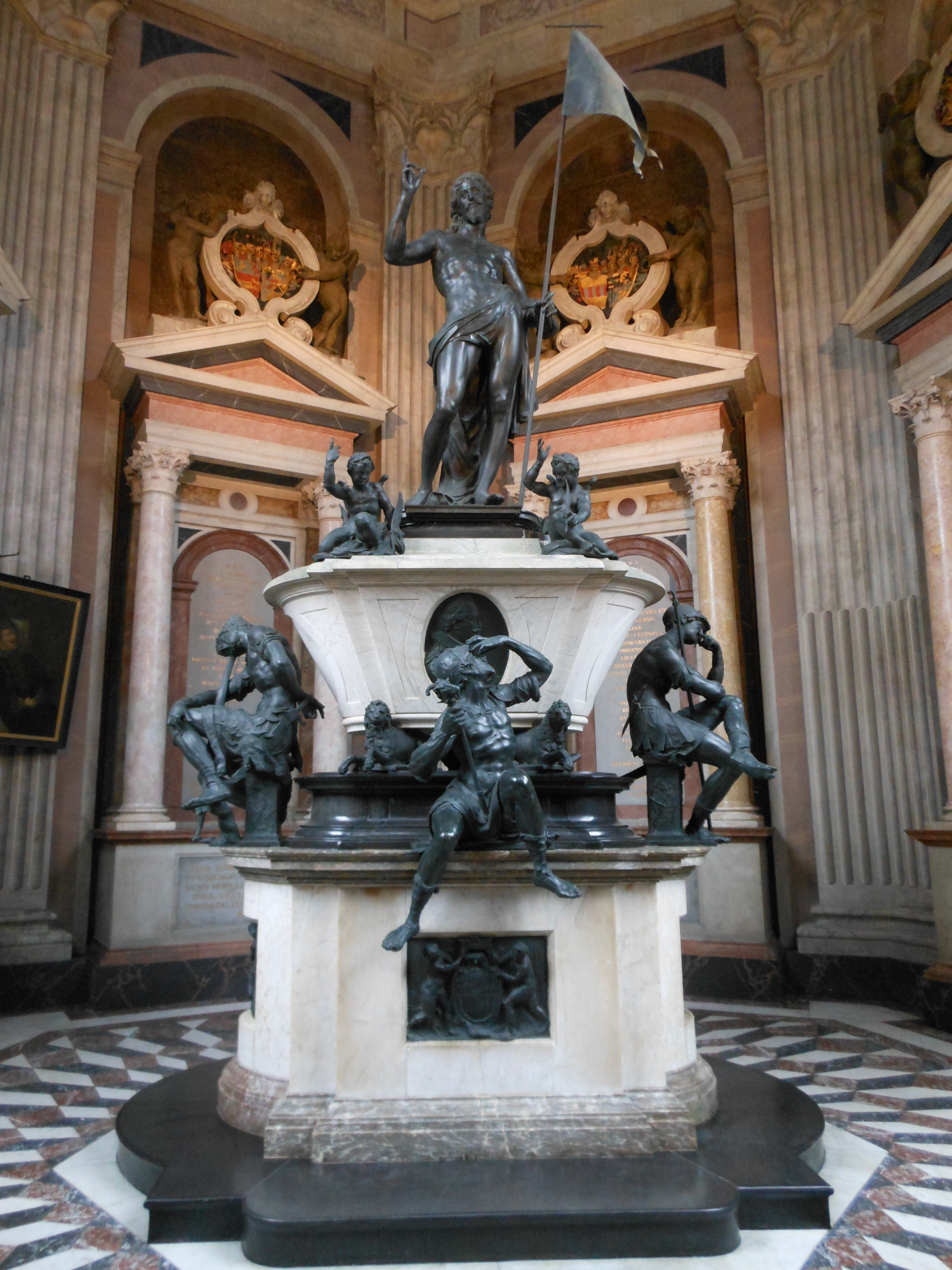 Prince's vault (Mausoleum) Stadthagen, Prince Ernst's cenotaph and monument of Resurrection by Adriaen de Vries